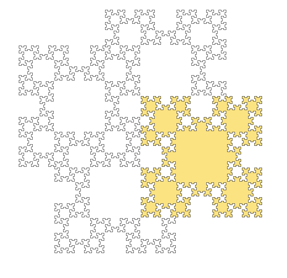 Tiling of the plane by polyminos built from the Fibonacci Word Fractal. The tiling leaves a small gap (visible here) but the surface of the gaps tends to zero as the iterations tend to infinity. See The Fibonacci Word Fractal